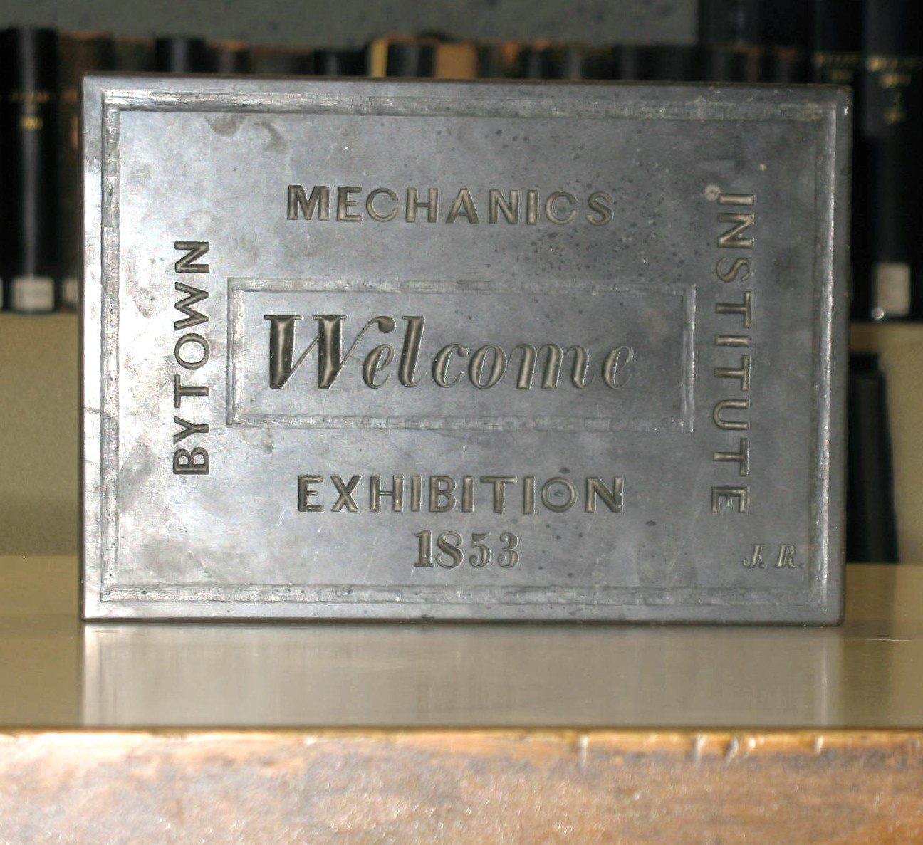 Image of the Bytown Mechanics' Institute cornerstone from the original building. Cornerstone currently resides at Ottawa Public Library.